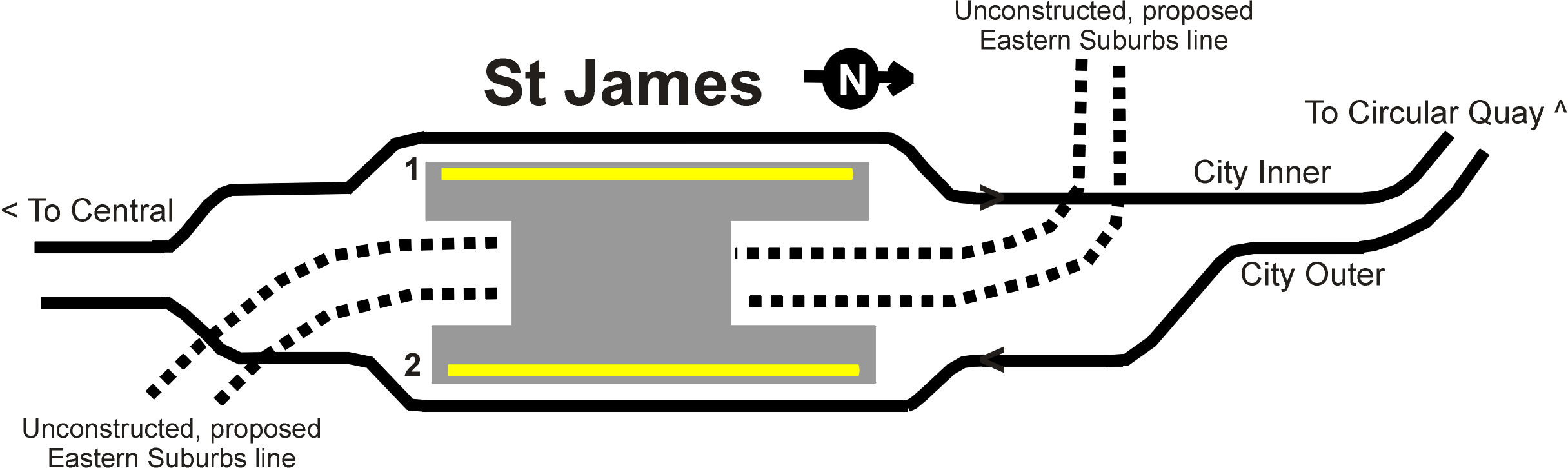 Track layout at St James railway station, Sydney